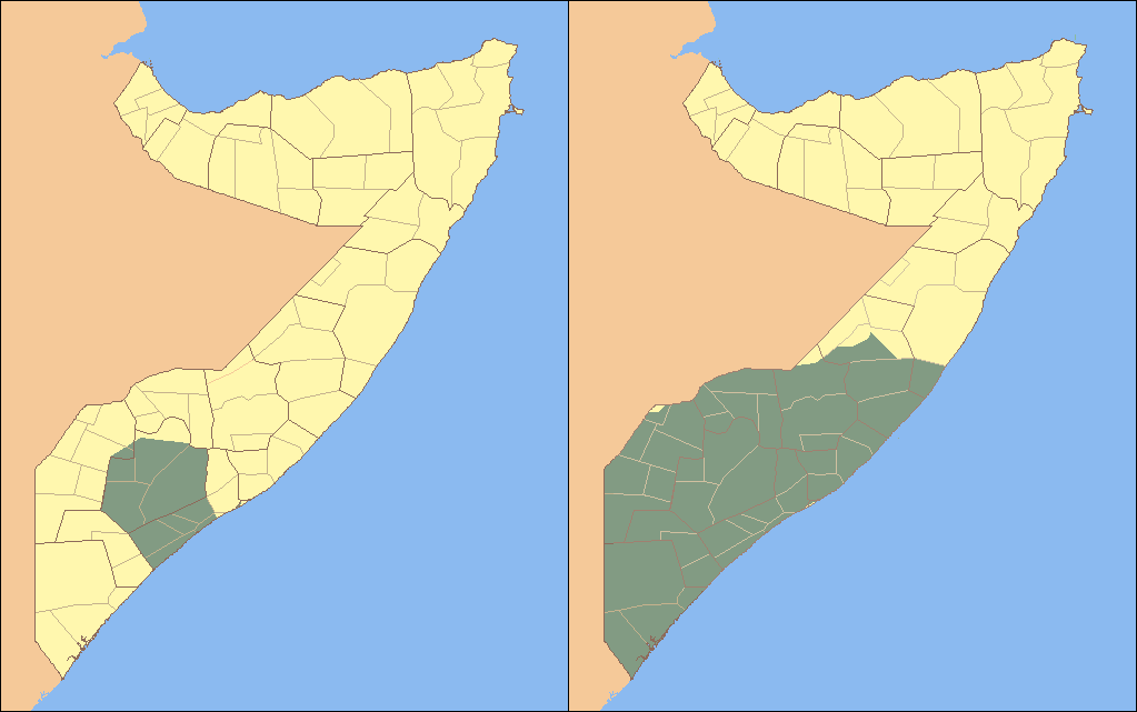 Gains made by al-Shabaab since January 2009